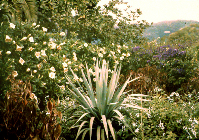 Colour Photograph (Omnicolore) of an Exotic Plant in a Garden in Madeira, by Sarah Angelina Acland, c.1910